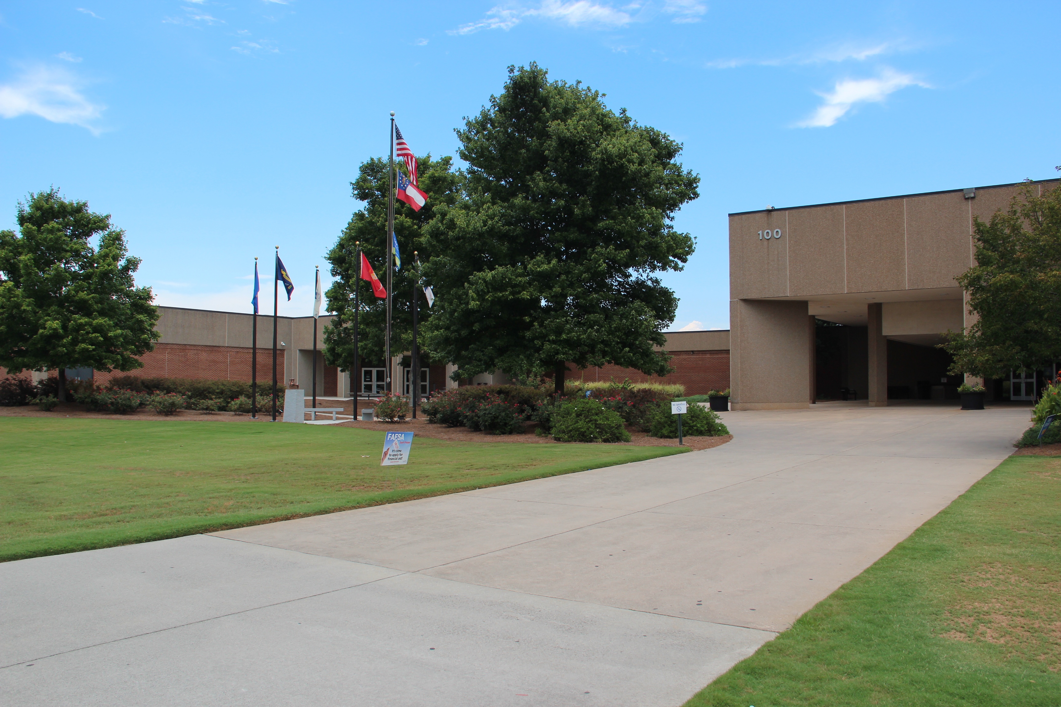 Gwinnett Technical College campus, July 2016